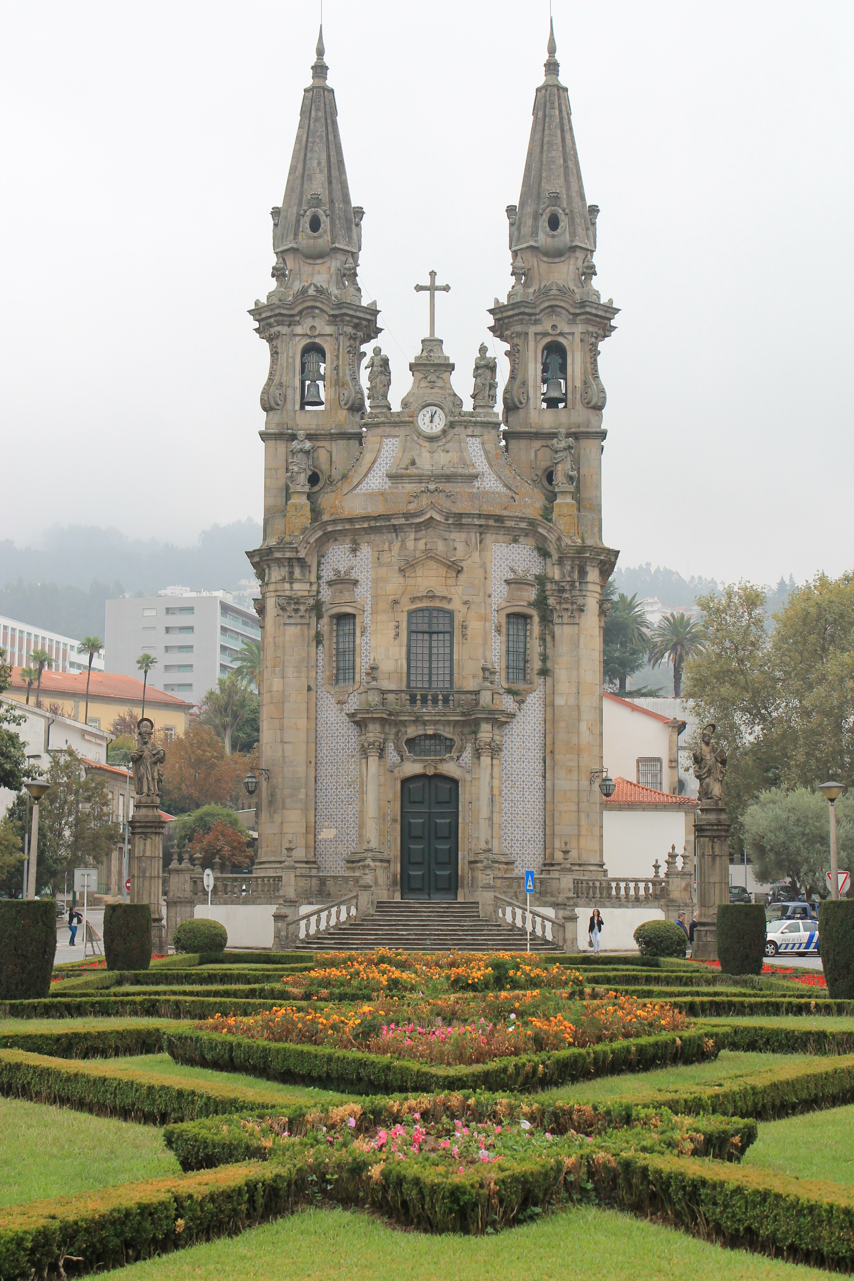 Front view of Igreja de Nossa Senhora da Consolação e Santos Passos